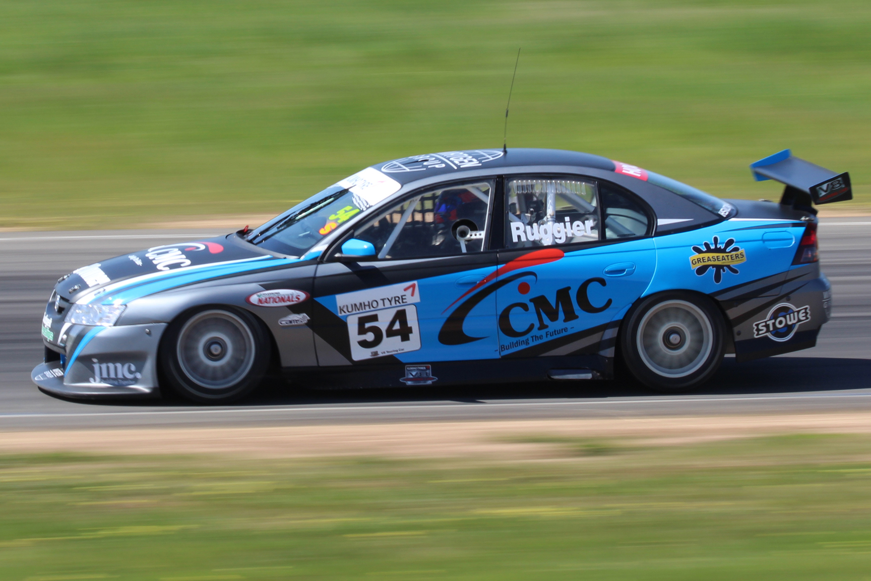 Justin Ruggier (Holden Commodore (VZ)) competing in Round 5 of the 2014 Kumho Tyres Australian V8 Touring Car Series at Wakefield Park.